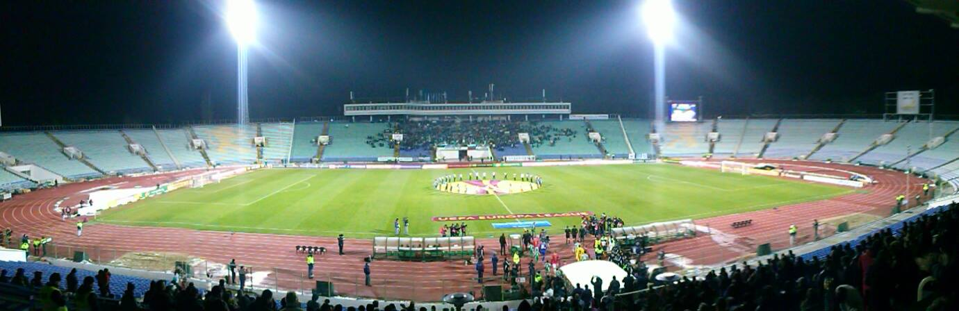 vassil levski national stadium